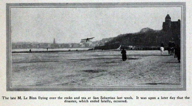 Hubert Le Blon flying Bleriot XI at San Sebastian, March 1910